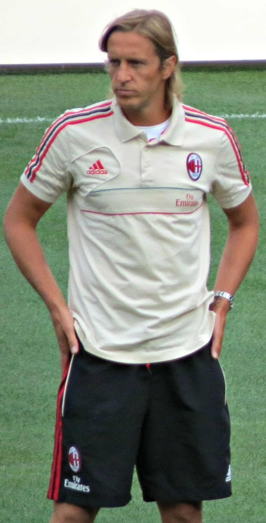 Taken by goatling with a Canon PowerShot SX40 HS camera. Massimo Ambrosini of A.C. Milan.